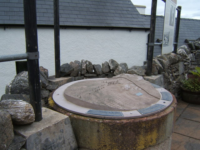 Relief Model of Calanais This model is between two information boards which describe possible construction methods of the Stone Circle and Avenue of Calanais.